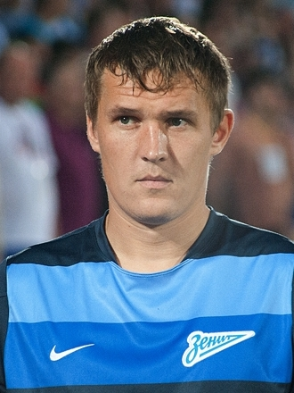 Alexandr Bukharov as a player of FC Zenit St.Petersburg